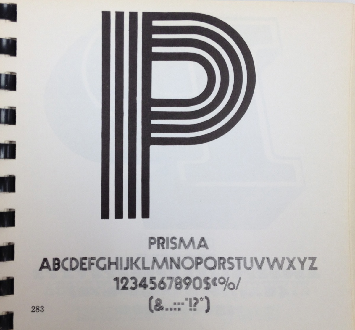 Specimen of Prisma typeface